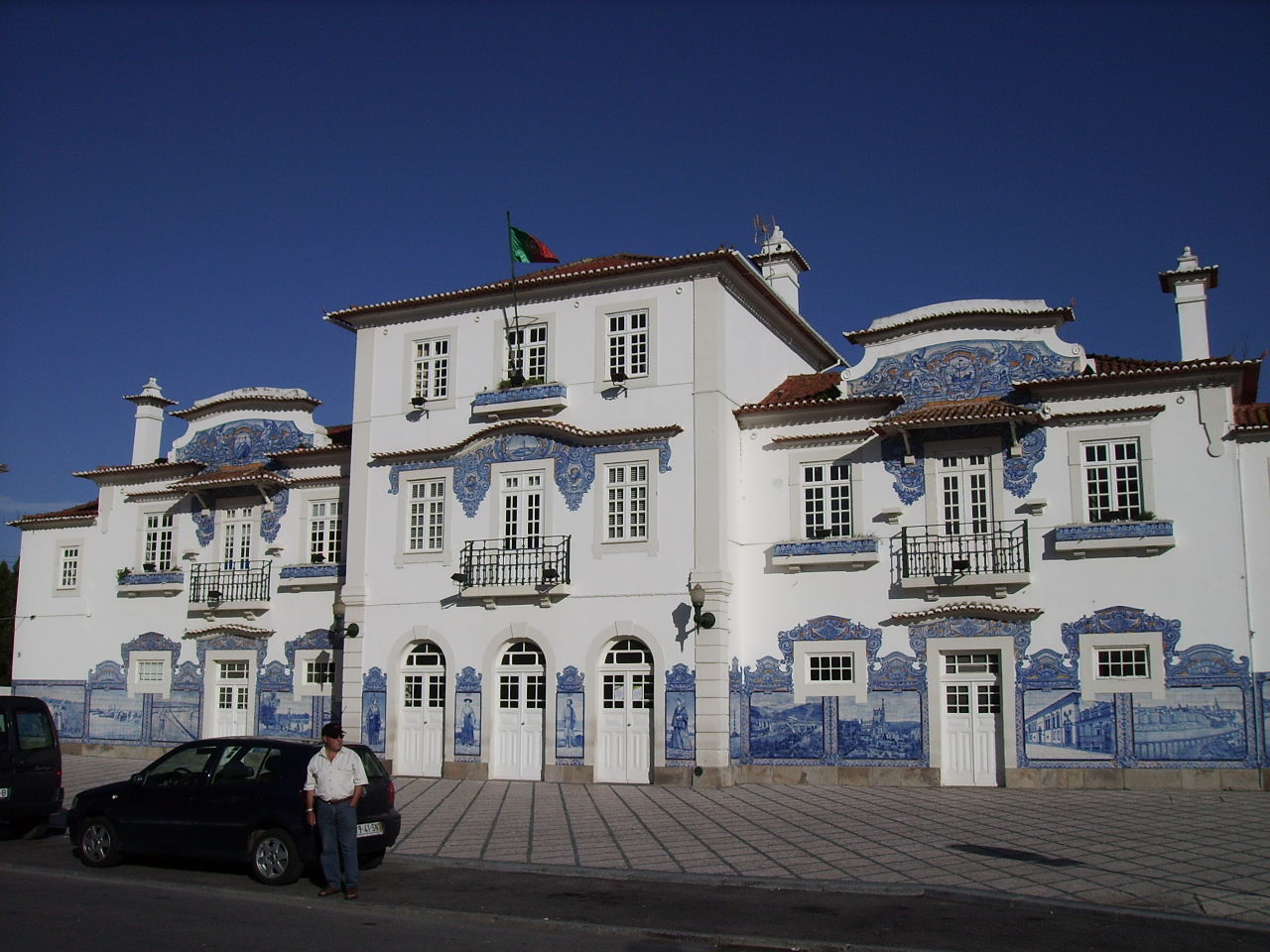 The old train station of Aveiro